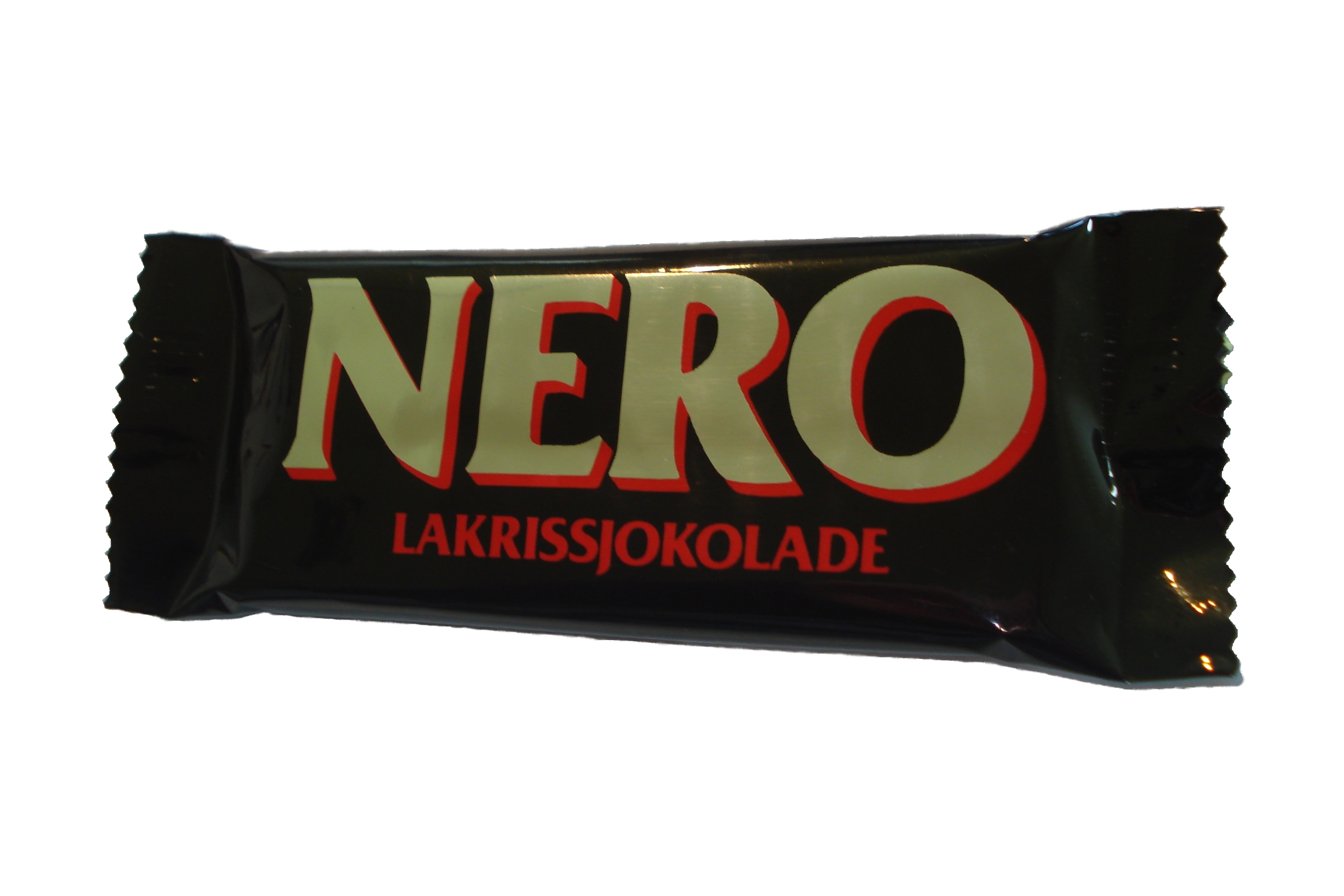 Another image of a "Nero"-chocolate.